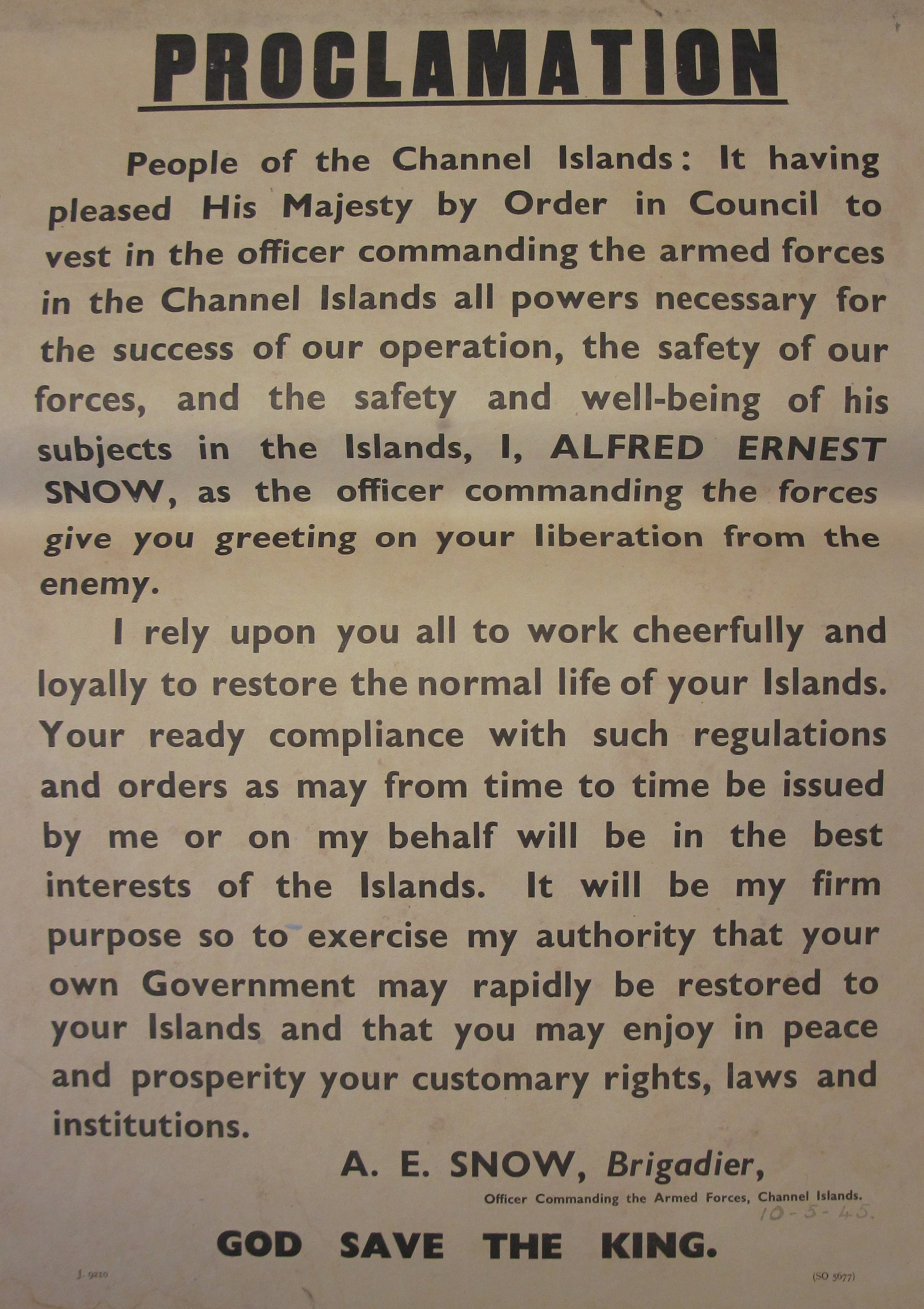 Liberation of the Channel Islands, May 1945: proclamation of the military governor This work created by the United Kingdom Government is in the public domain. This is because it is one of the following: It is a photograph taken prior to 1 June 1957; or It was published prior to 1970; or It is an artistic work other than a photograph or engraving (e.g. a painting) which was created prior to 1970. HMSO has declared that the expiry of Crown Copyrights applies worldwide (ref: HMSO Email Reply)More information. See also Copyright and Crown copyright artistic works.